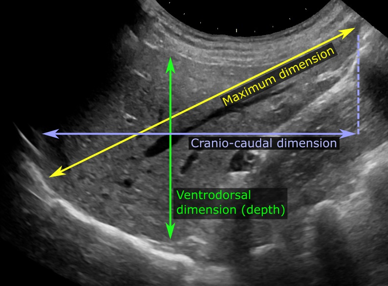 edit Abdominal ultrasonography of a normal liver of a 31-year old man. It is in a sagittal plane in the midclavicular line, with the following measurements: Maximum dimension Cranio-caudal dimension Ventro-dorsal dimension (depth) Reference: Christoph F. Dietrich, Carla Serra, Maciej Jedrzejczyk (2010-07-28). Ultrasound of the liver - EFSUMB – European Course Book.